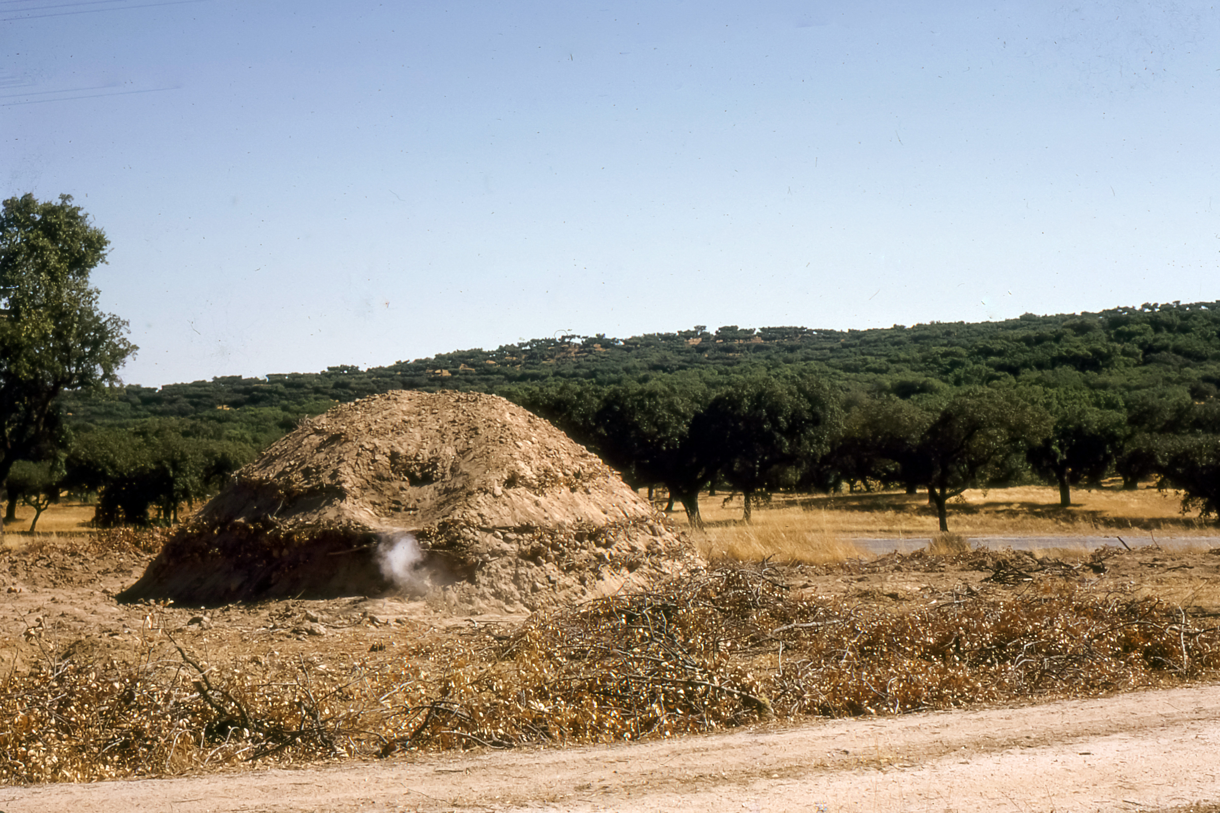 Manufacture of charcoal..